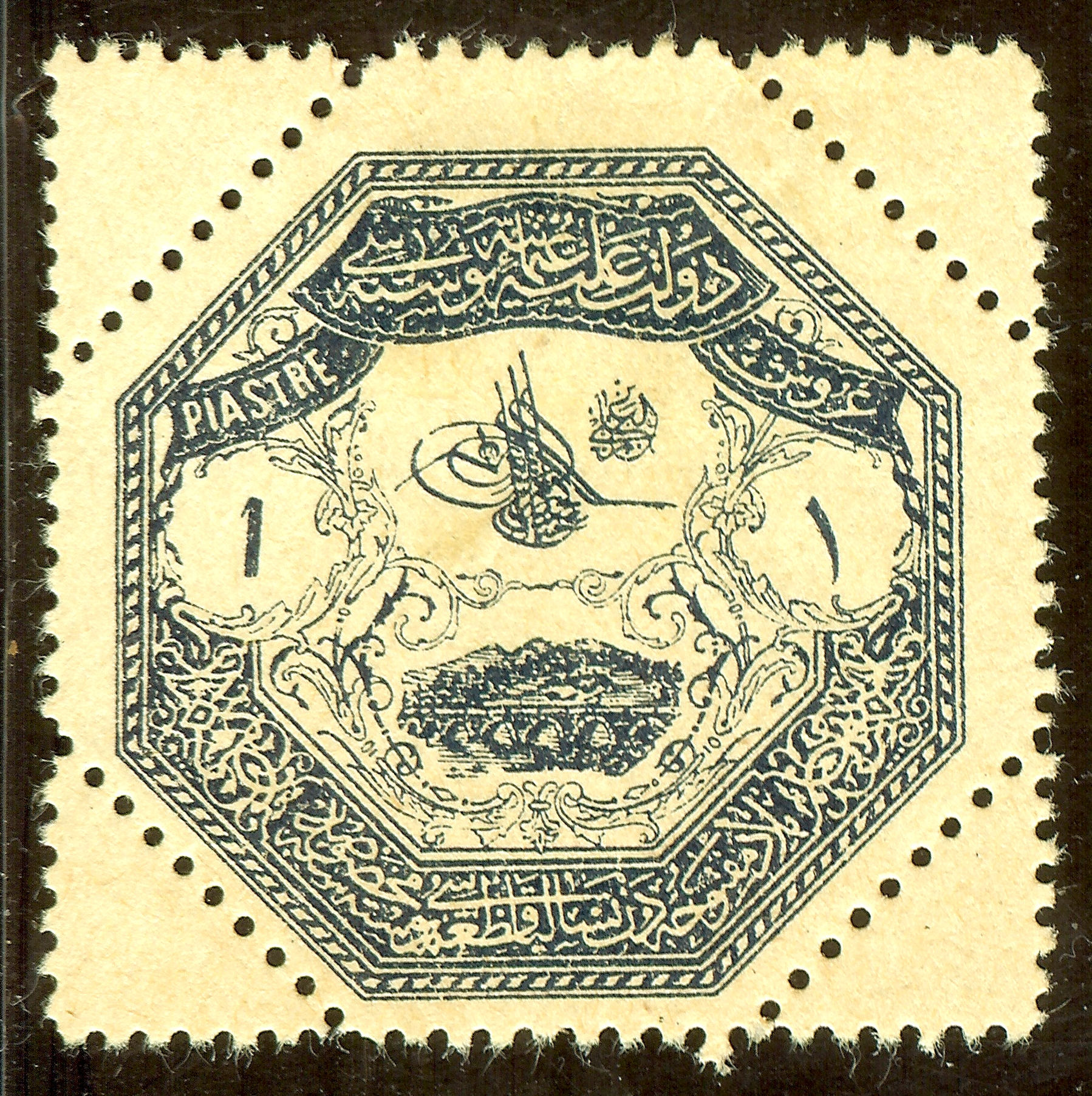 A 1 piastre military stamp of Ottoman Empire, 1898, Scott Cat. no. M3.